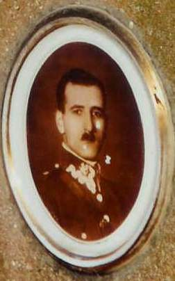 The photo of Niko Aghniashvili on his gravestone